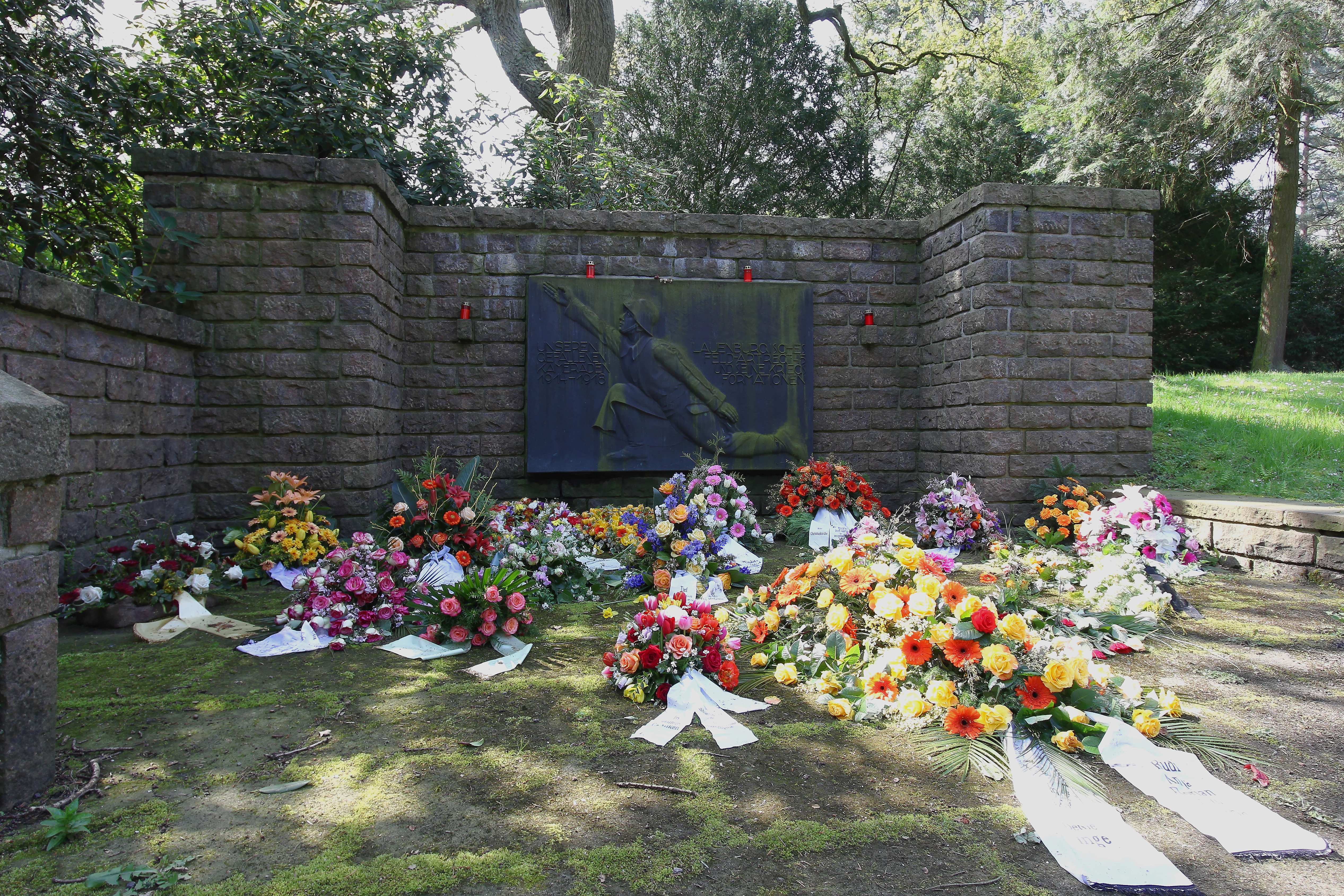 WW I memorial at the Main cemetery Hamburg-Altona